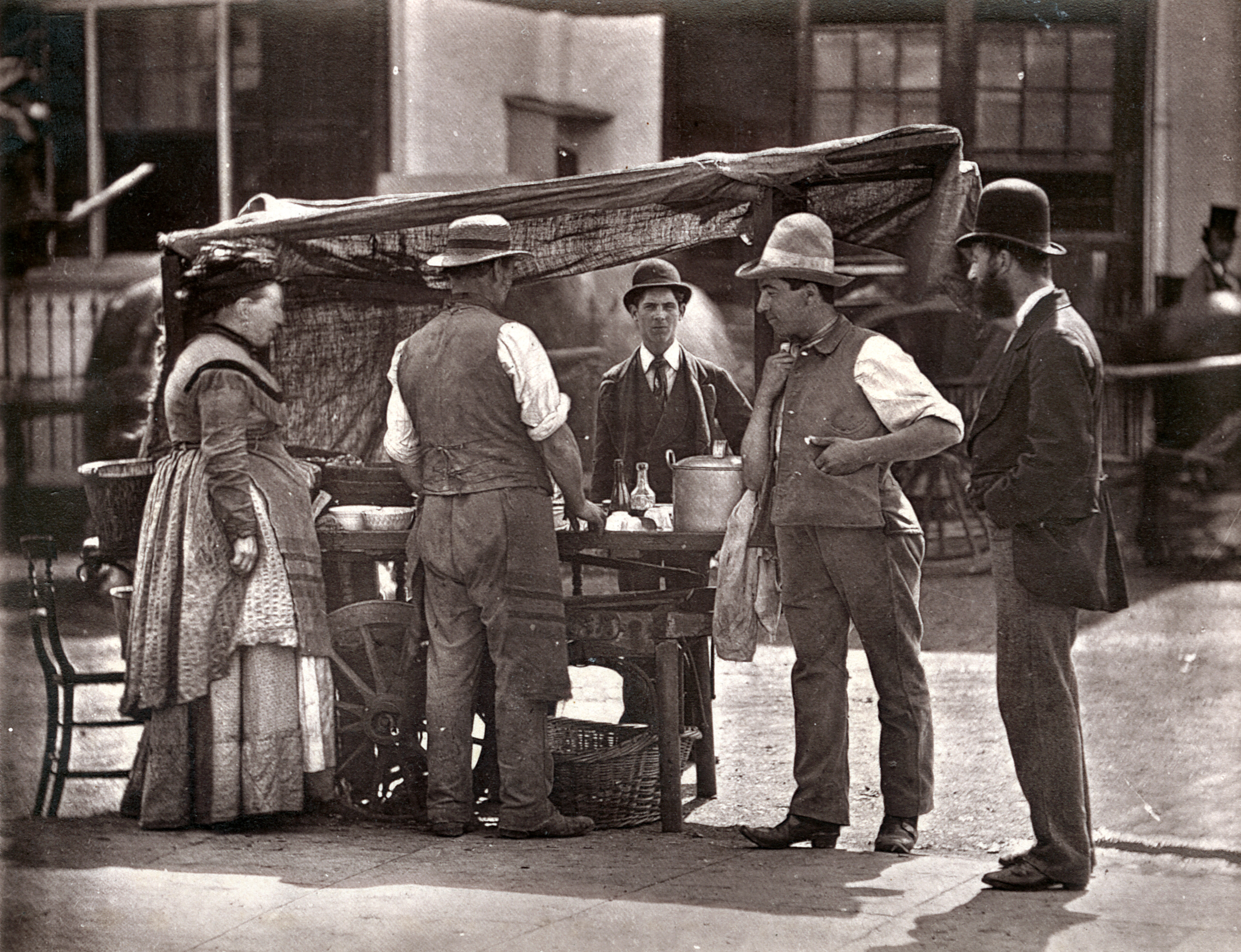 From 'Street Life in London', 1877, by John Thomson and Adolphe Smith: ‘“But it's hard to pick up money on the streets; there is so many at the same game now, that it's about all we can do to get food. Fridays and Saturdays we stands a better chance of extra custom. Fish on Fridays goes down with the Irish, and on Saturday nights we get often a better class of customers than on other days. The workmen and their wives and sweethearts are about then, and hardly know how to spend their money fast enough. After visiting the public-houses they finish up with a fish supper of the very finest sort. Although I say it, no finer can be got, not at Greenwich or anywhere else. I've got to know exactly what I am about, and always to keep things going on the barrow in a style that brings folks back again. It's no use for a man always on the same pitch going in for the cheap and-nasty; he couldn't stand a day against the competition of his neighbours. I never pick out anything that looks the least thing gone, for fear of losing the run of trade. When it's possible to work off some doubtful goods is at night, at the bar of a public house, when the men drinking are too far gone to be nice about smell or taste, so long as they gets something strong. But even that is a dangerous game to be tried on too often, so I for my part leaves it alone."’ For the full story, and other photographs and commentaries, follow this link and click through to the PDF file at the bottom of the description